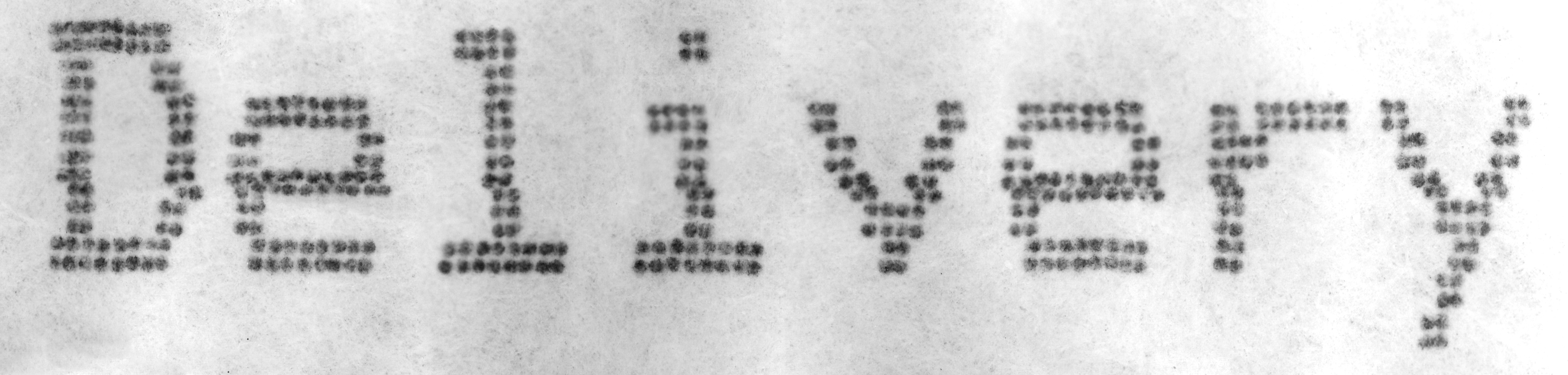 The word "Delivery" as output in a bold, large font by a dot matrix receipt printer. This image was made using a cheap "Plugable" USB microscope and image stitching. The noticeable horizontal anomaly bisecting the characters is on the original receipt and is not a failure of the image stitching.